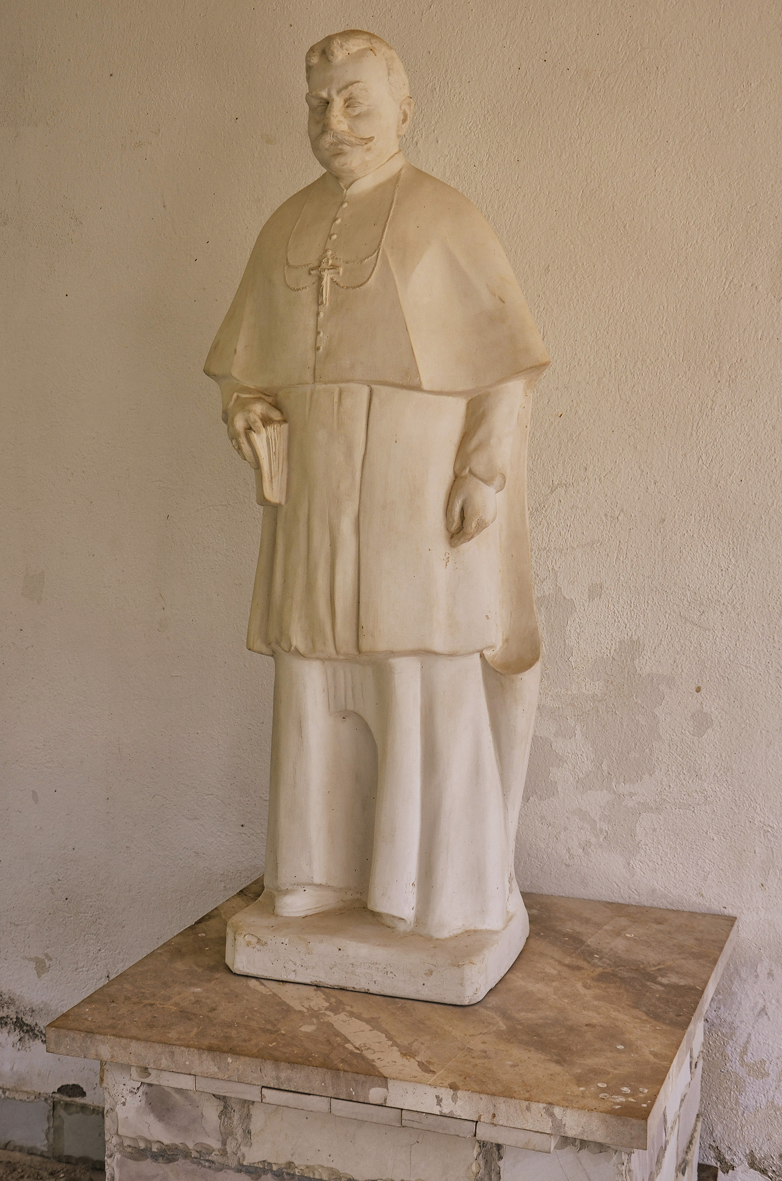 The sculpture of Preng Doçi in the portico of the Orosh Church, Mirditë, Albania